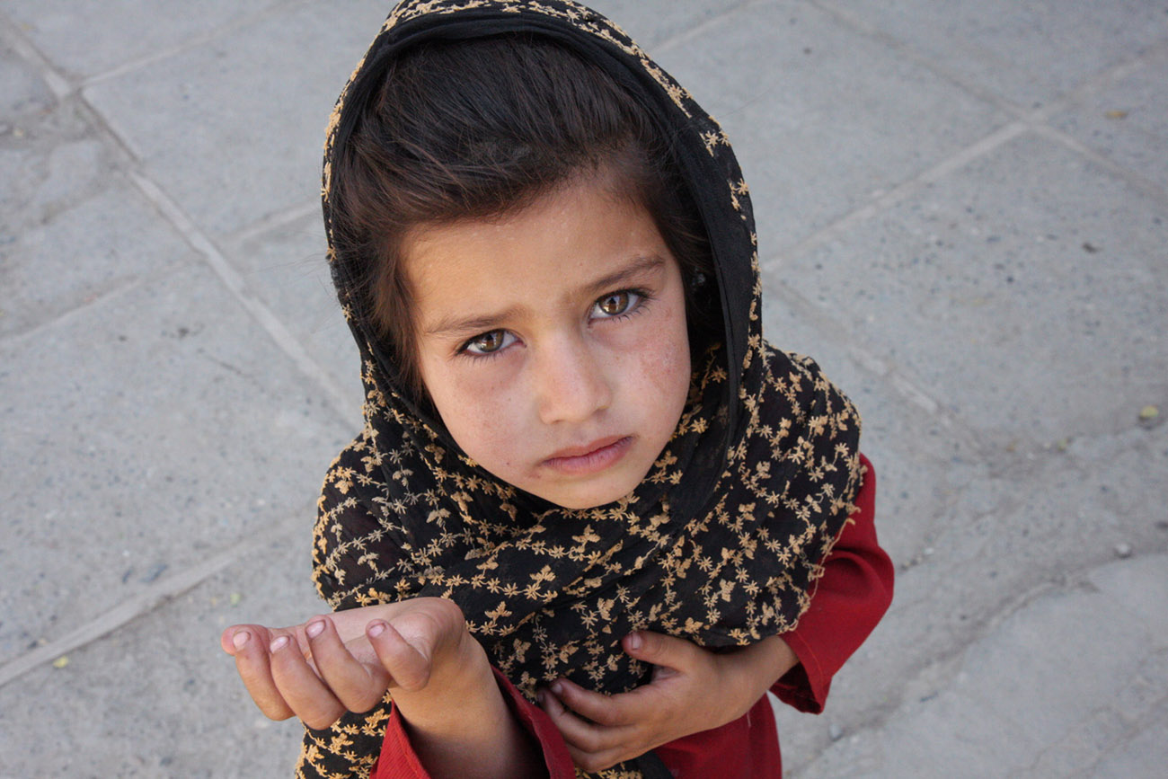 A young Afghan girl begging in the street in Kabul, 8 September 2008. Photo by Mikhail Evstafiev